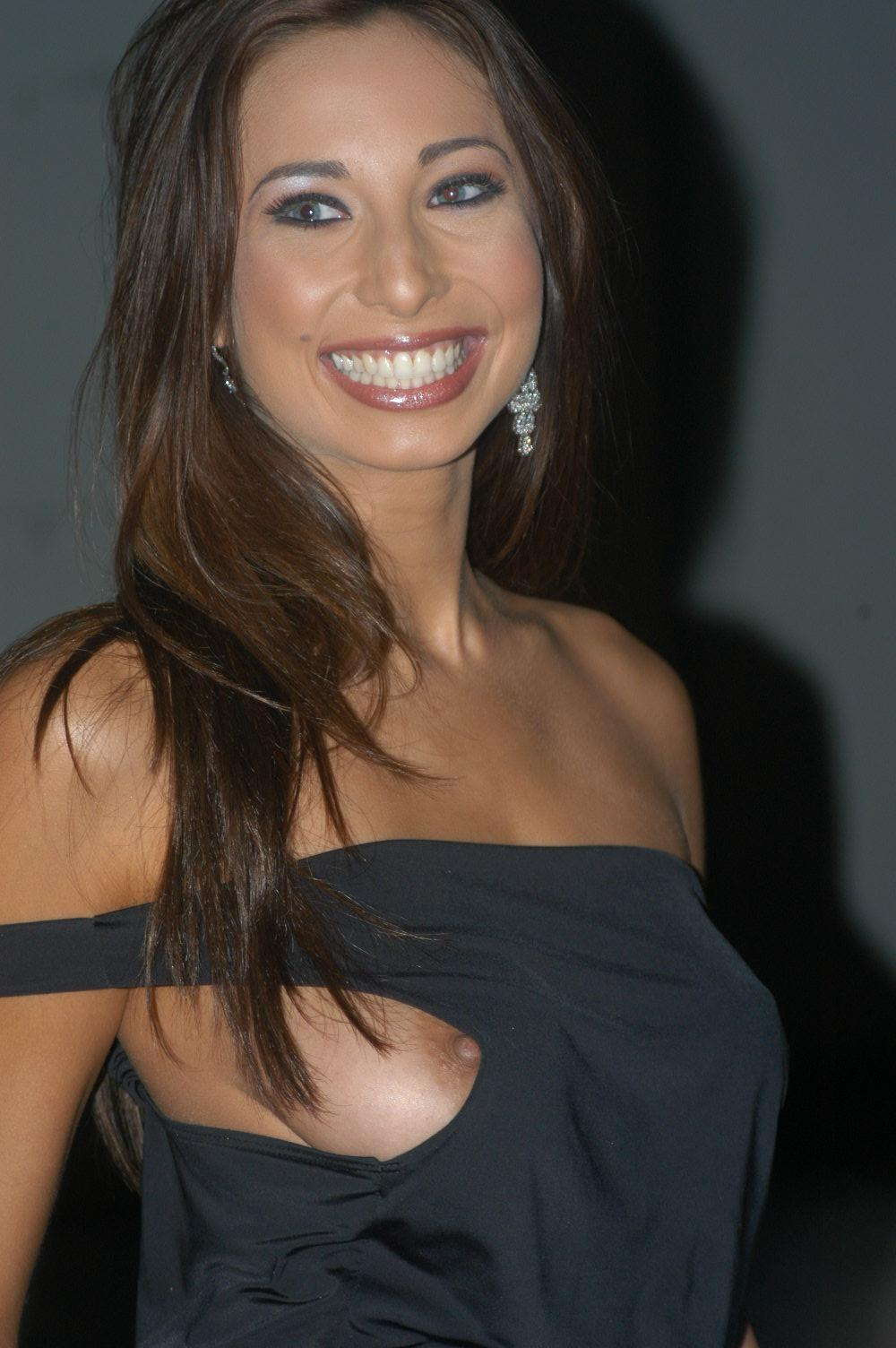 Tiffany Taylor at West Coast Productions Party.